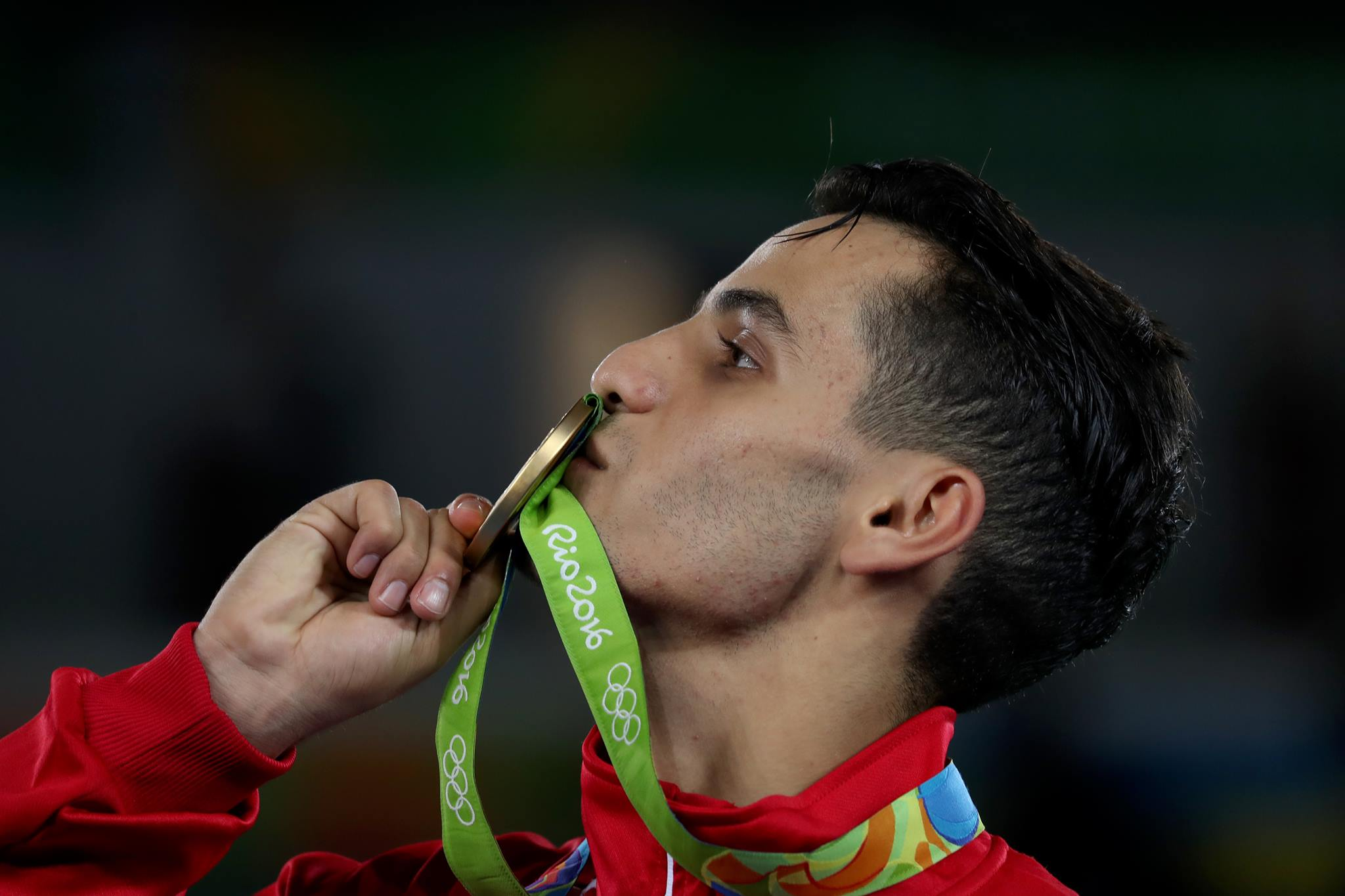 Ahmad Abughaush by Salem Khames the 2016 Summer Olympics in Rio de Janeiro, in the men's 68 kg